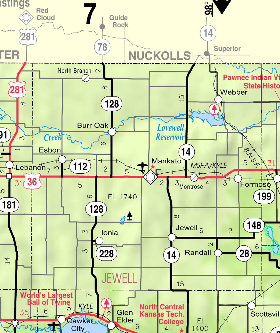 This map of Jewell County, Kansas, USA, is copied at a resolution of 300 pixels/inch from the original PDF file.